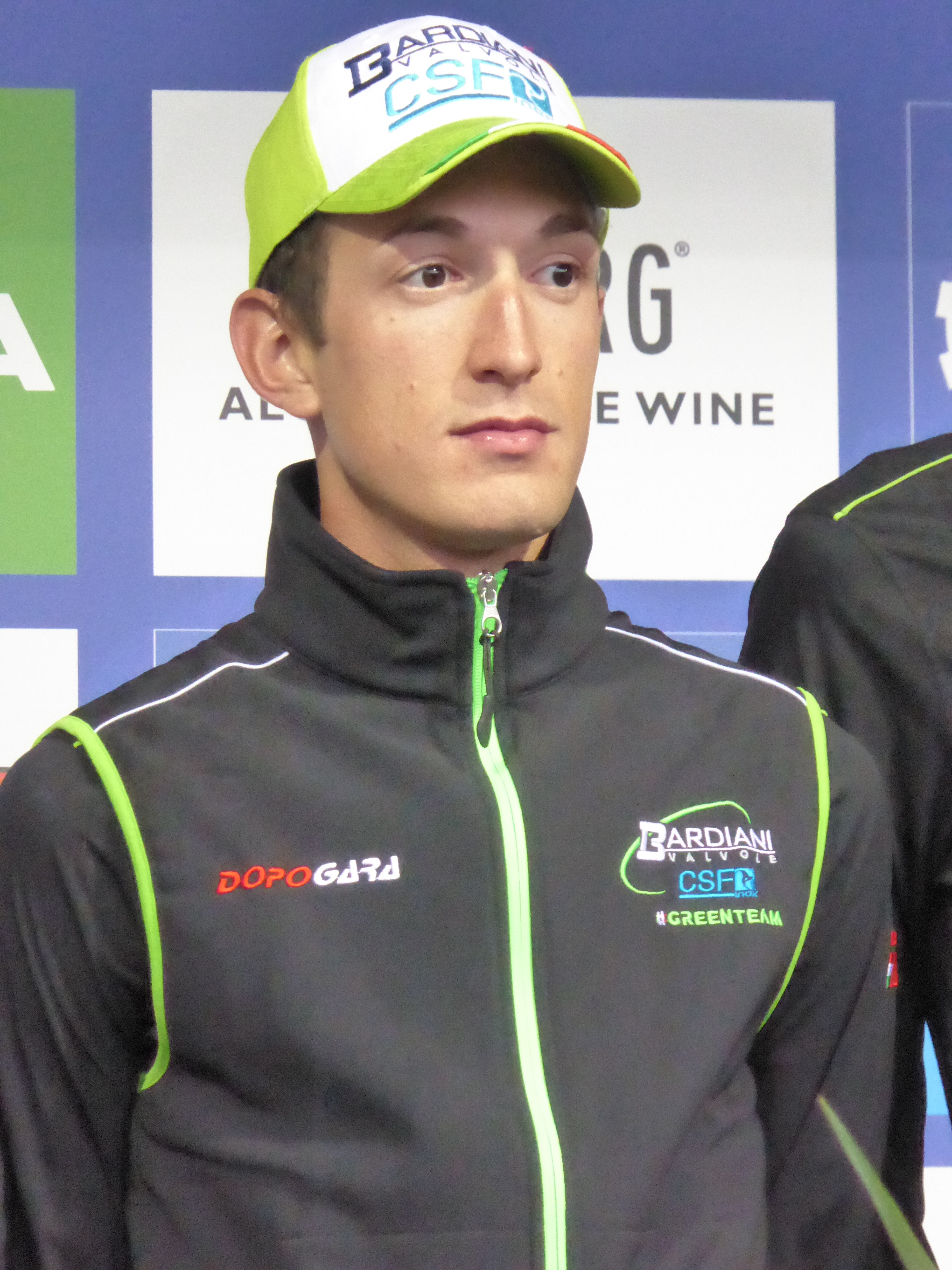 Alessandro Tonelli (Bardiani-CSF), pictured at the 2016 Tour of Britain team presentation in Glasgow on 3 September 2016.